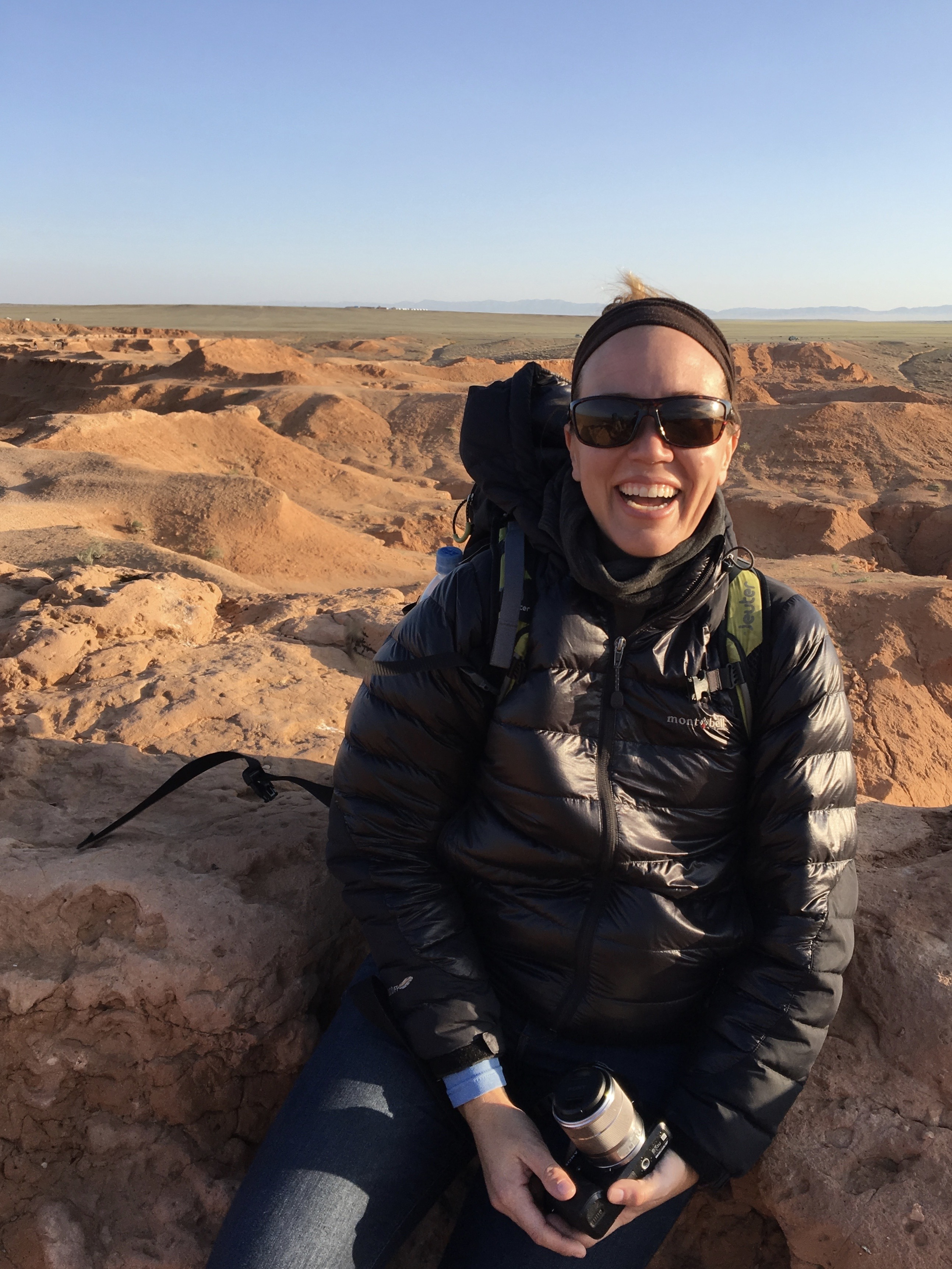 Lydia Pyne in Bayanzag, Mongolia